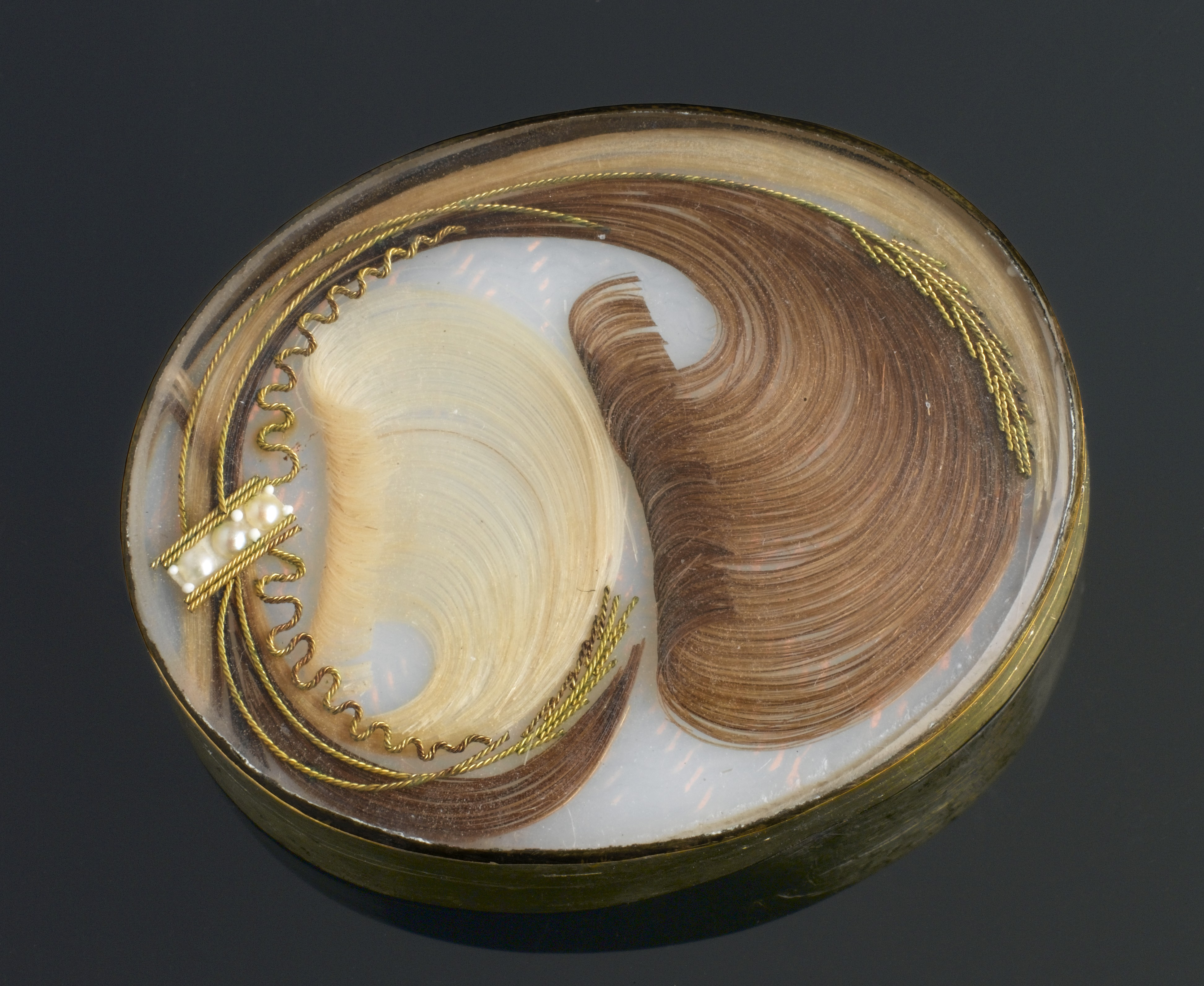 Human hair is contained in this gold brooch. The jewellery is encased in a gold frame and on a pearly background. Such ‘hairwork’ was a craft often associated with mourning in Europe in the 1700s and 1800s. This is because much jewellery contained intricately moulded locks of hair from a departed loved one. The brooch was also a memento mori. These objects remind the living of both the dead and the fragility of life. Women in Victorian Britain were permitted to wear hairwork jewellery in the ‘second stage’ of mourning. This began a year and a day after the loved one's death. maker: Unknown maker Place made: Europe Medical Photographic Library Keywords: human hair; memento mori; brooch